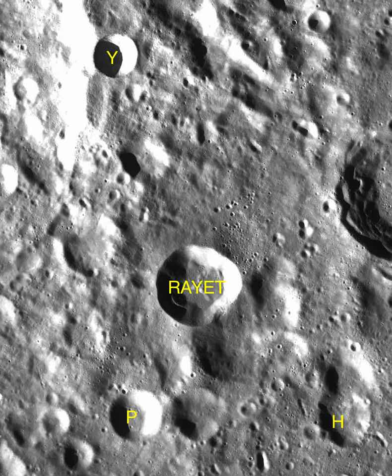 Part of the chart LAC-30 used for the presentation